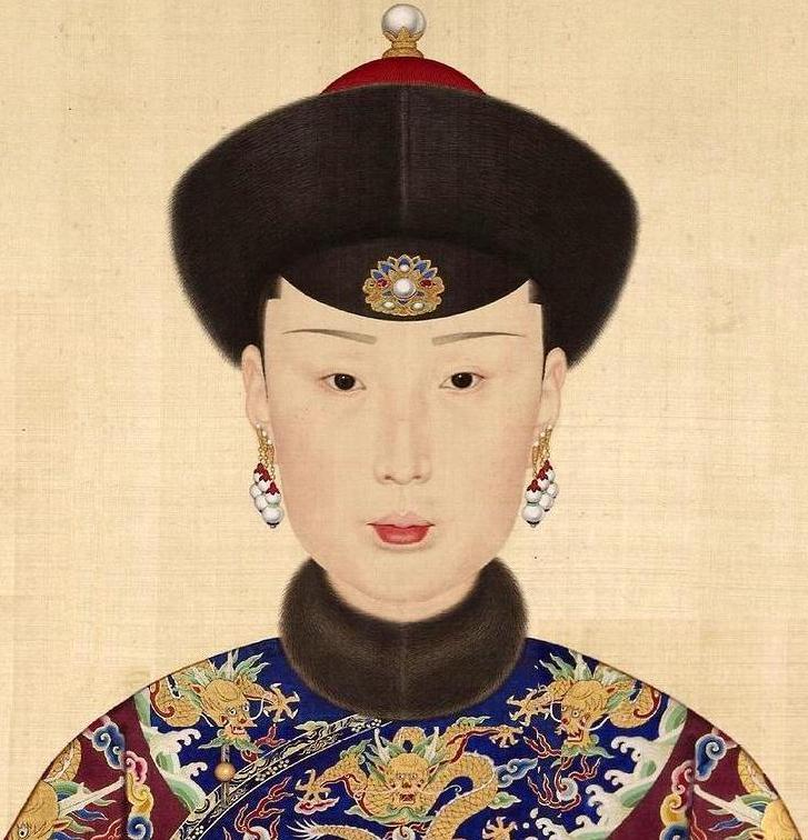 The Official Imperial Portrait of Qing Dynasty's Imperial Consorts (Consort Shu